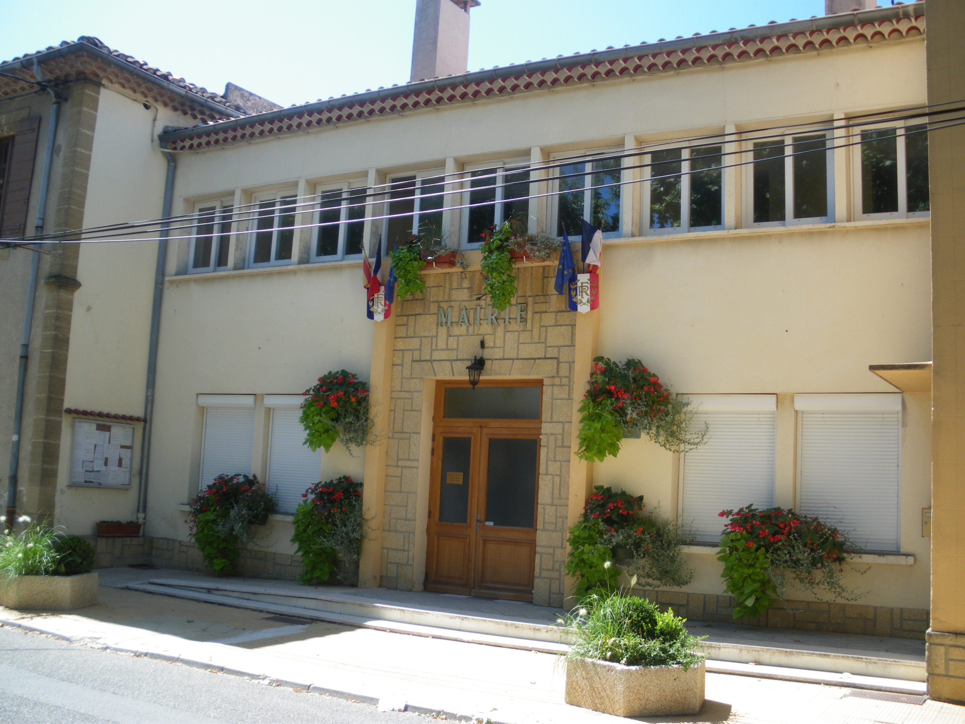 Town Hall of Violès, Vaucluse, France